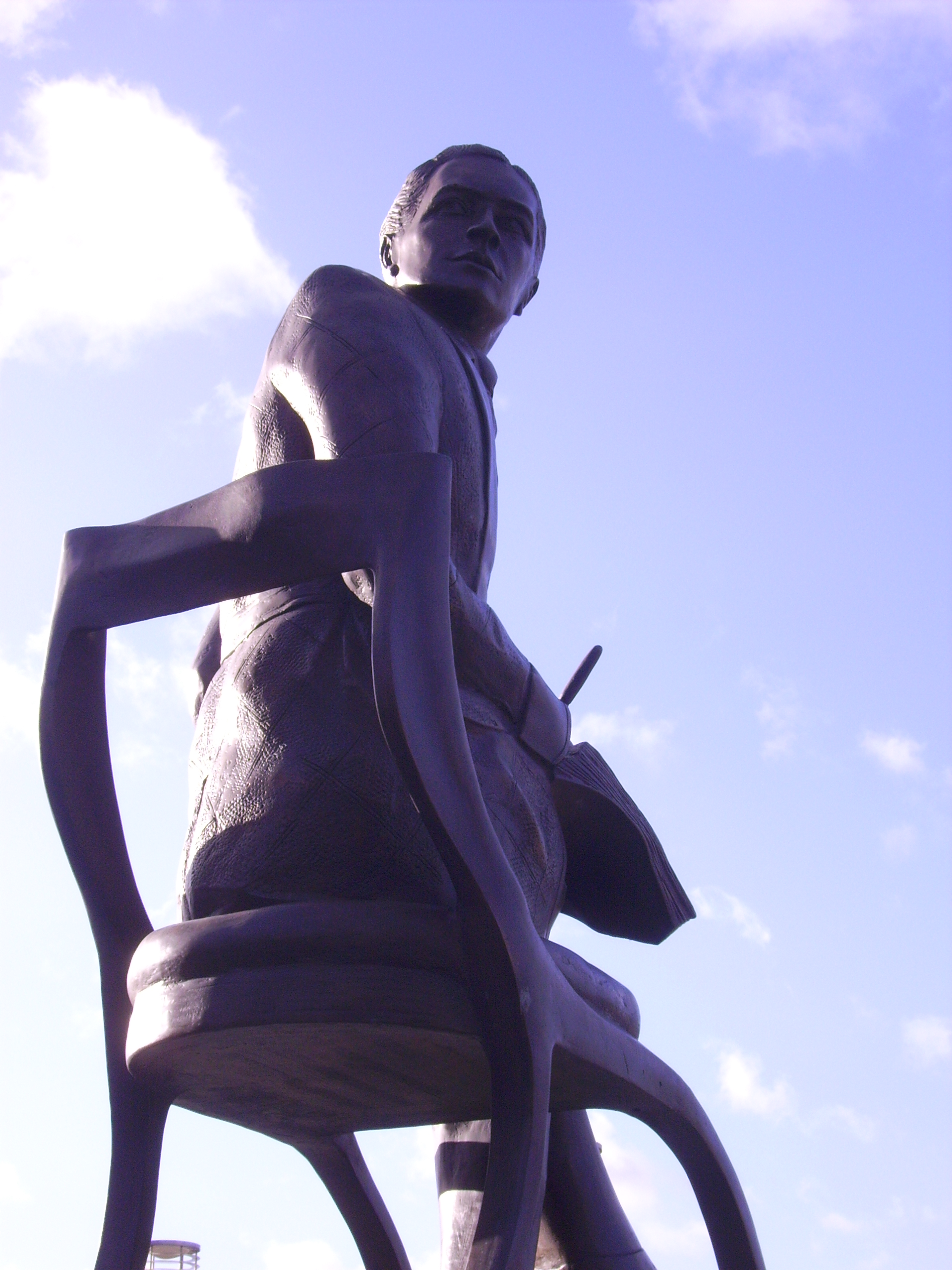 Sculpture of Ivor Novello at Cardiff Bay, Wales. The artwork is in located in public area.